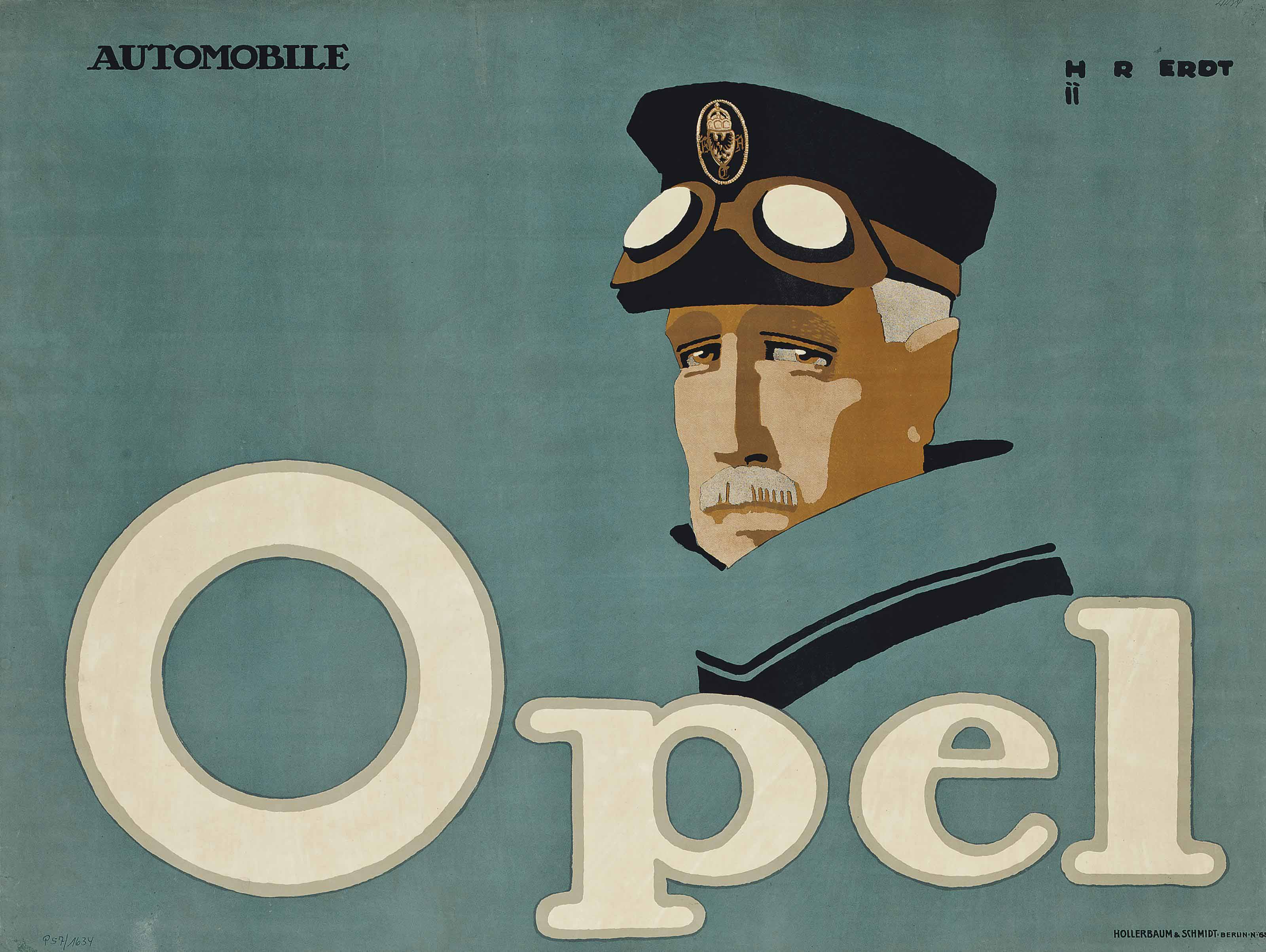 Advertising poster related to German car manufacturer Opel, designed around 1911 by Hans Rudi Erdt. Lithograph, 27 x 36½ in. (69 x 93 cm.)